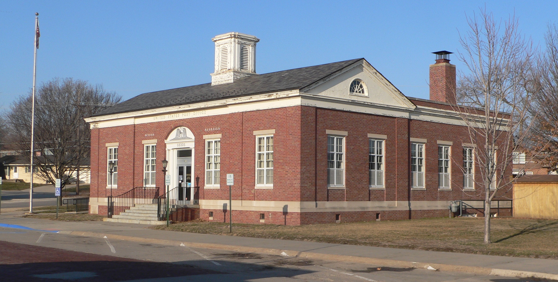 Post office, located at 1320 Courthouse Avenue in Auburn, Nebraska. View is from the east; building faces southeast.